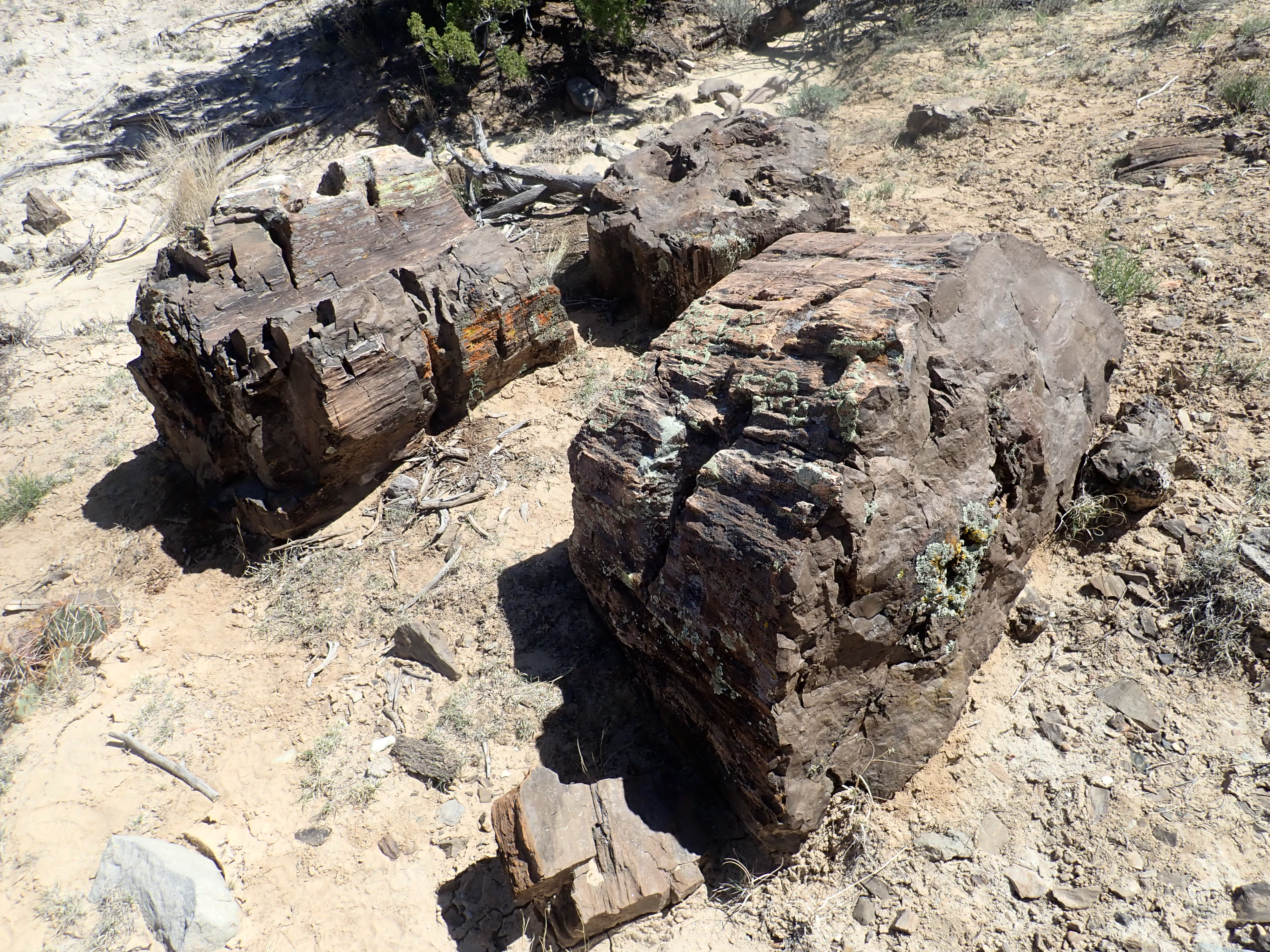 This image shows petrified wood from the Galisteo Formation near Arroyo del Tuerto, New Mexico, USA. The Galisteo Formation is an Eocene formation from which titanothere fossils have been recovered near this locality.